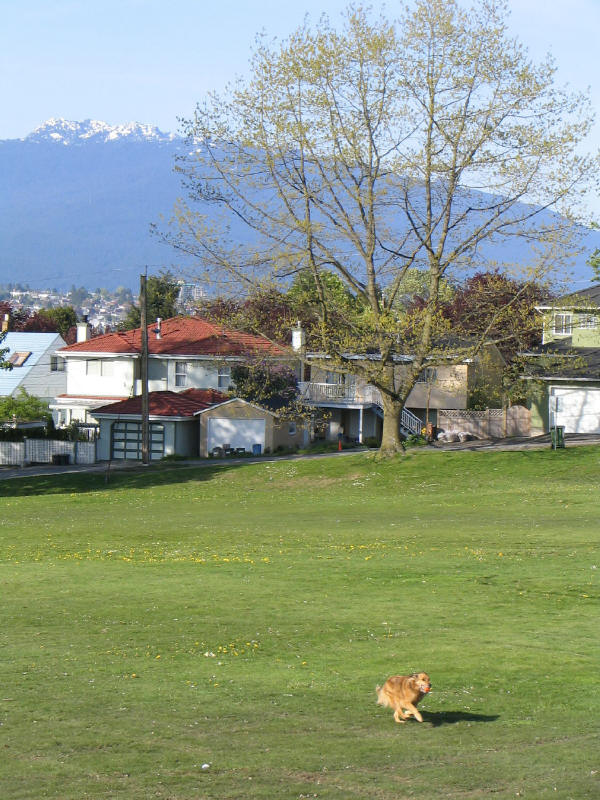 This image was created by me, Flying Penguin of Pacific Spirit Photography ( of Burnaby, British Columbia, Canada